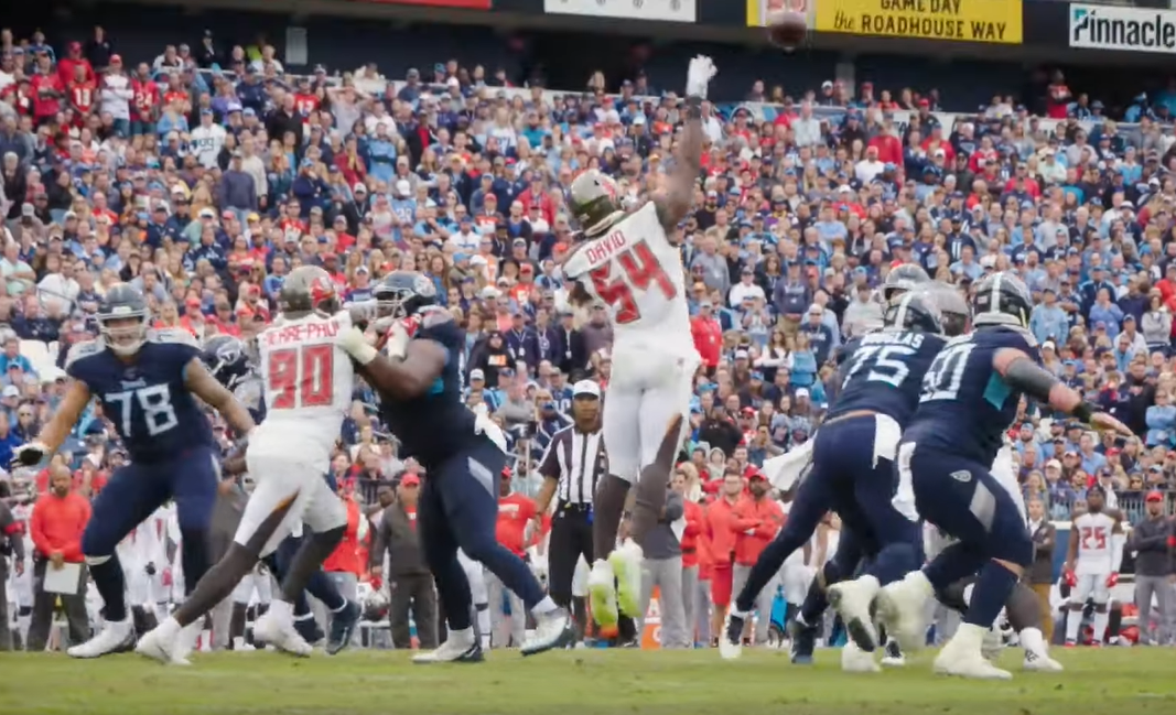 Lavonte David 2019. Image from video Titans Mic'd Up vs. Bucs (Week 8) | Sounds of the Gamee, ~ 02:35.